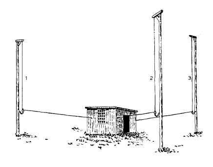 First experimental phased array antenna, invented by Karl Ferdinand Braun in 1905 in Strasbourg, Germany. This was a 3 element array antenna which transmitted a beam of radio waves whose direction could be rotated electronically to 3 directions 120° apart. It consists of 3 monopole antennas at the corners of an equilateral triangle whose bisector is a quarter wavelength long. Two of the antennas are fed in phase but a quarter wave phase delay can be switched into the feed line of one. Braun won the Nobel Prize in Physics in 1909 for his radio work. Phased arrays are now widely used in radar and many other applications.